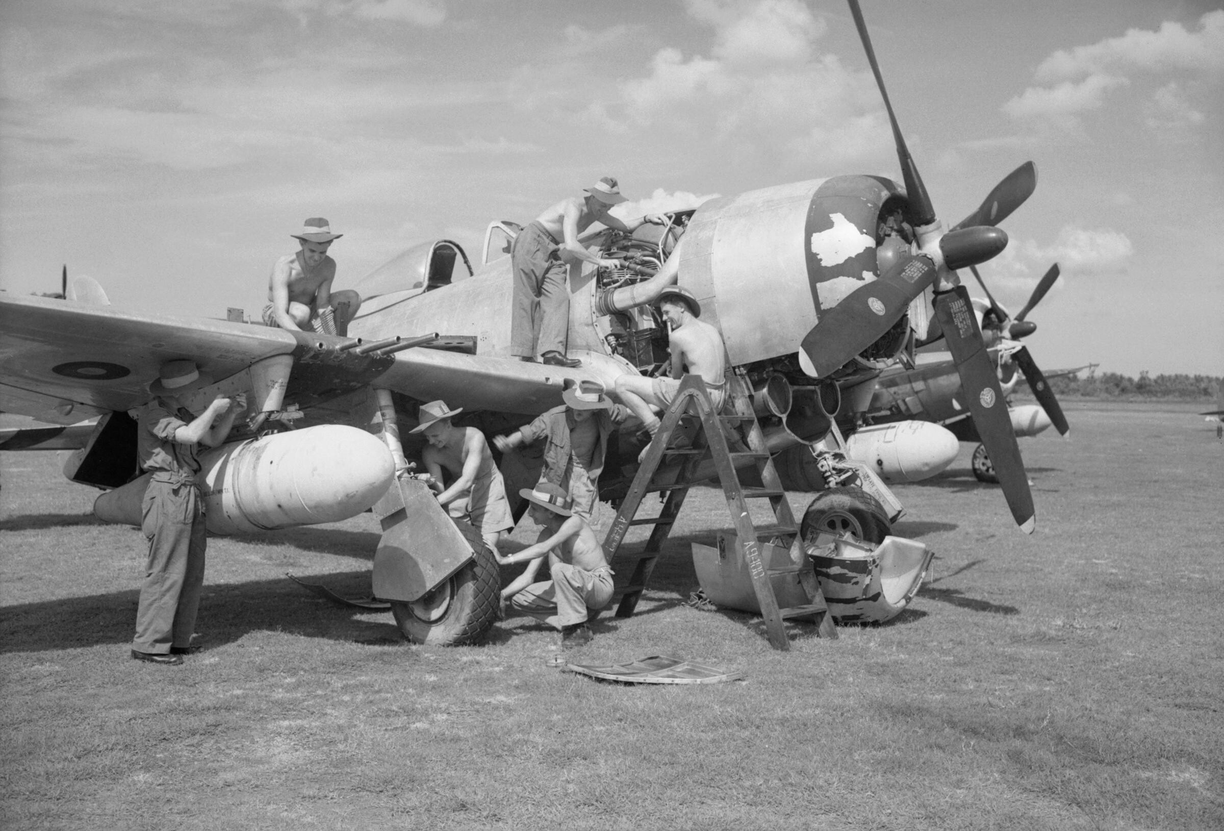 IWM caption : Ground crew of 81 Squadron service a Thunderbolt aircraft at Kemajoran airfield, Batavia, in readiness for operations against Indonesian nationalists at Sourabaya (Soerabaja) in Java.